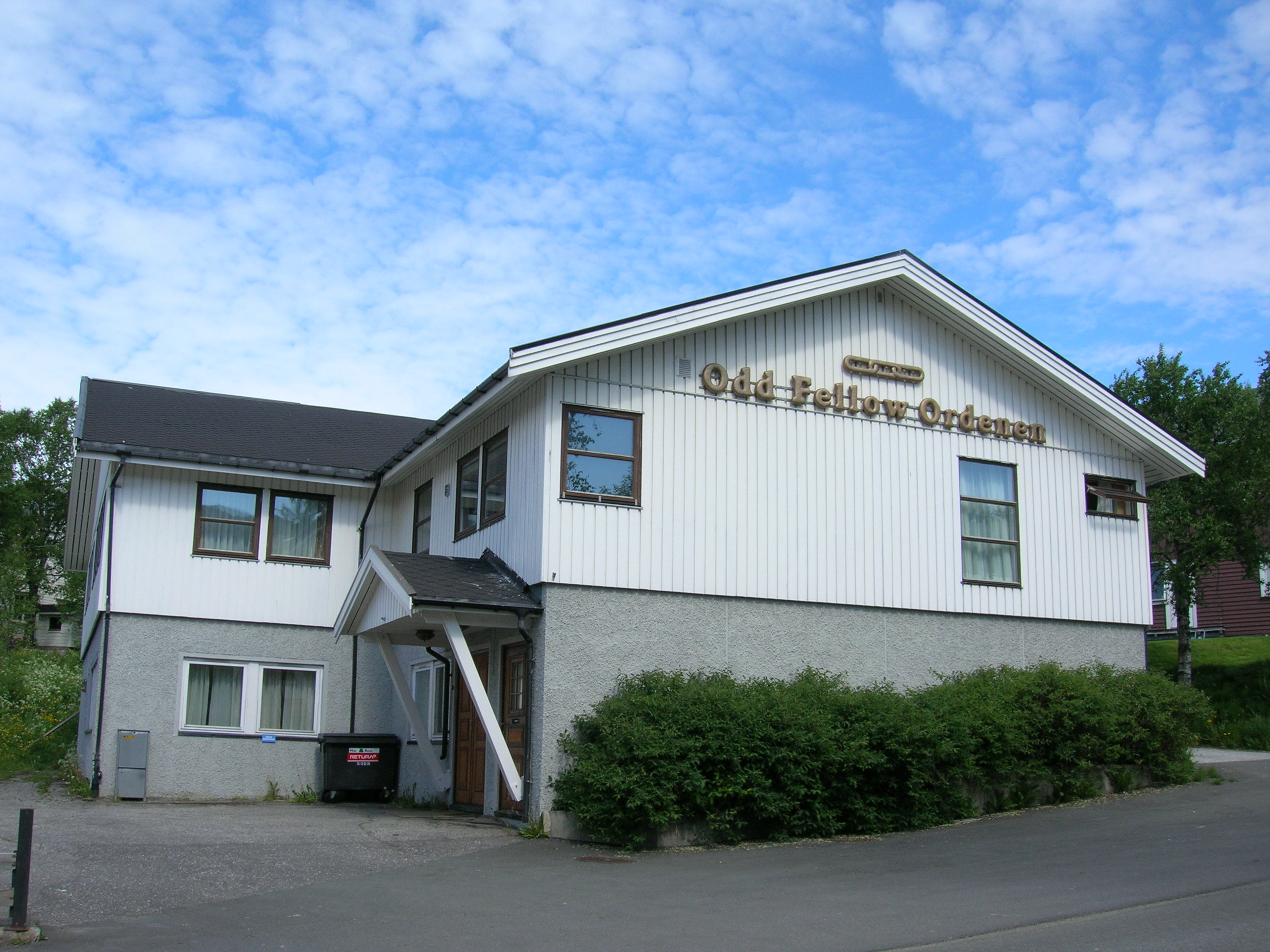 Odd Fellow building in Mo i Rana, Rana municipality, Nordland county, Norway. The building is used by the Odd Fellow Lodge no 83, «Orion», the Odd Fellow Lodge no 121, «Yggdrasil», the Rebekka Lodge no 52, «Grotten», and the Rebekka Lodge no 121, «Rose». Photo on 10 June, 2007 with a Nikon Coolpix 5600 5,1 Megapixel camera.